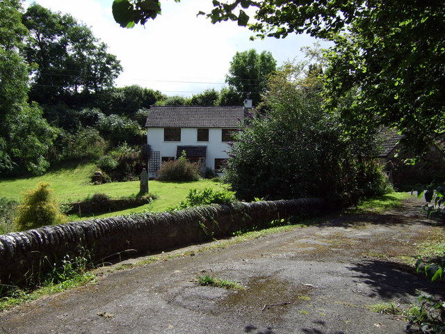 Felin Werndew Once a mill using the water from the stream running down Cwm Fforest, and standing on the turnpike road on which this disused bridge was very likely situated. The modern road runs at a higher level alongside, making this site is almost invisible to passers-by.